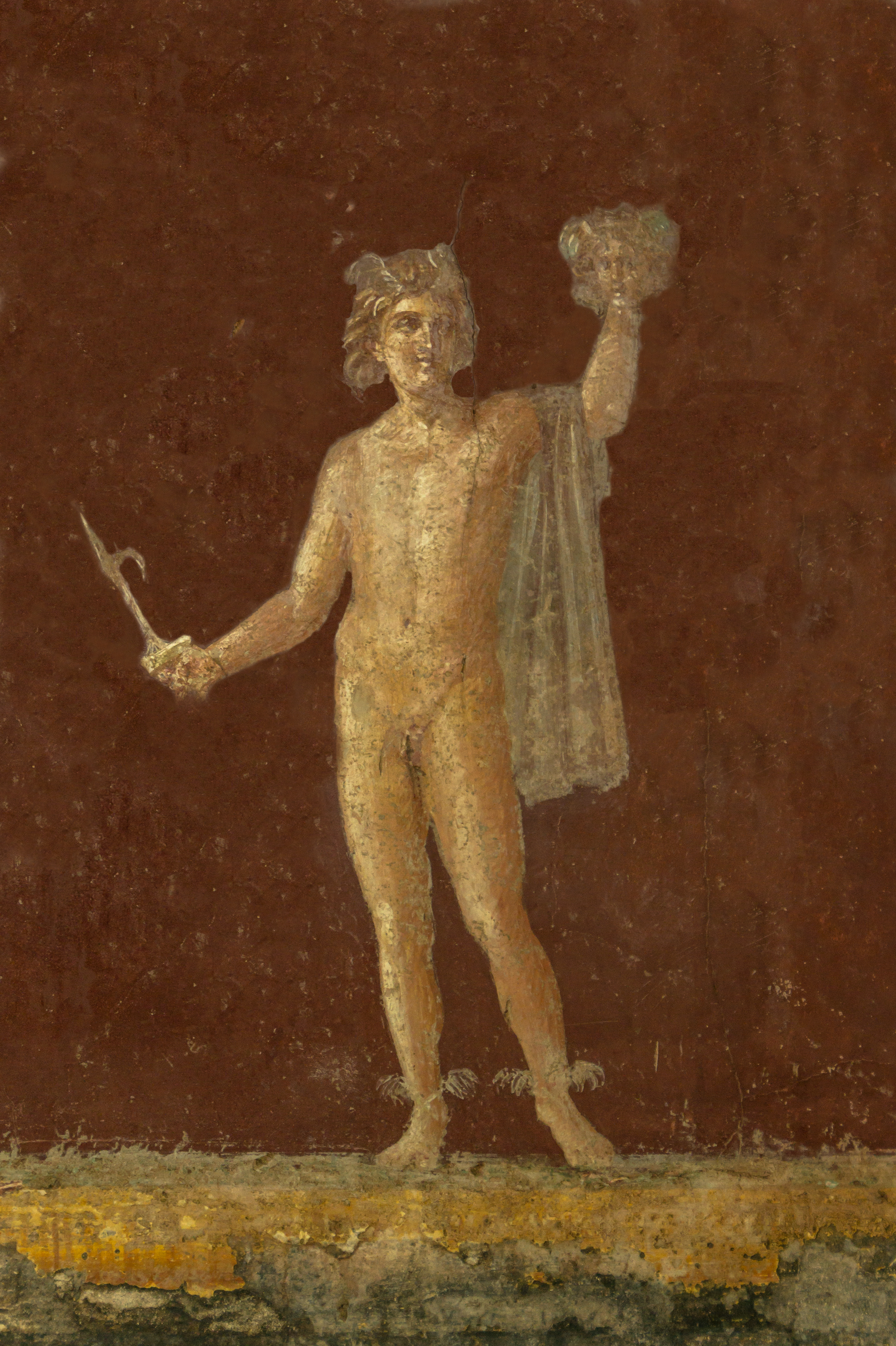 Ancient roman fresco (detail) featuring Perseus and the head of Medusa at Villa San Marco in Stabiae, Italy.